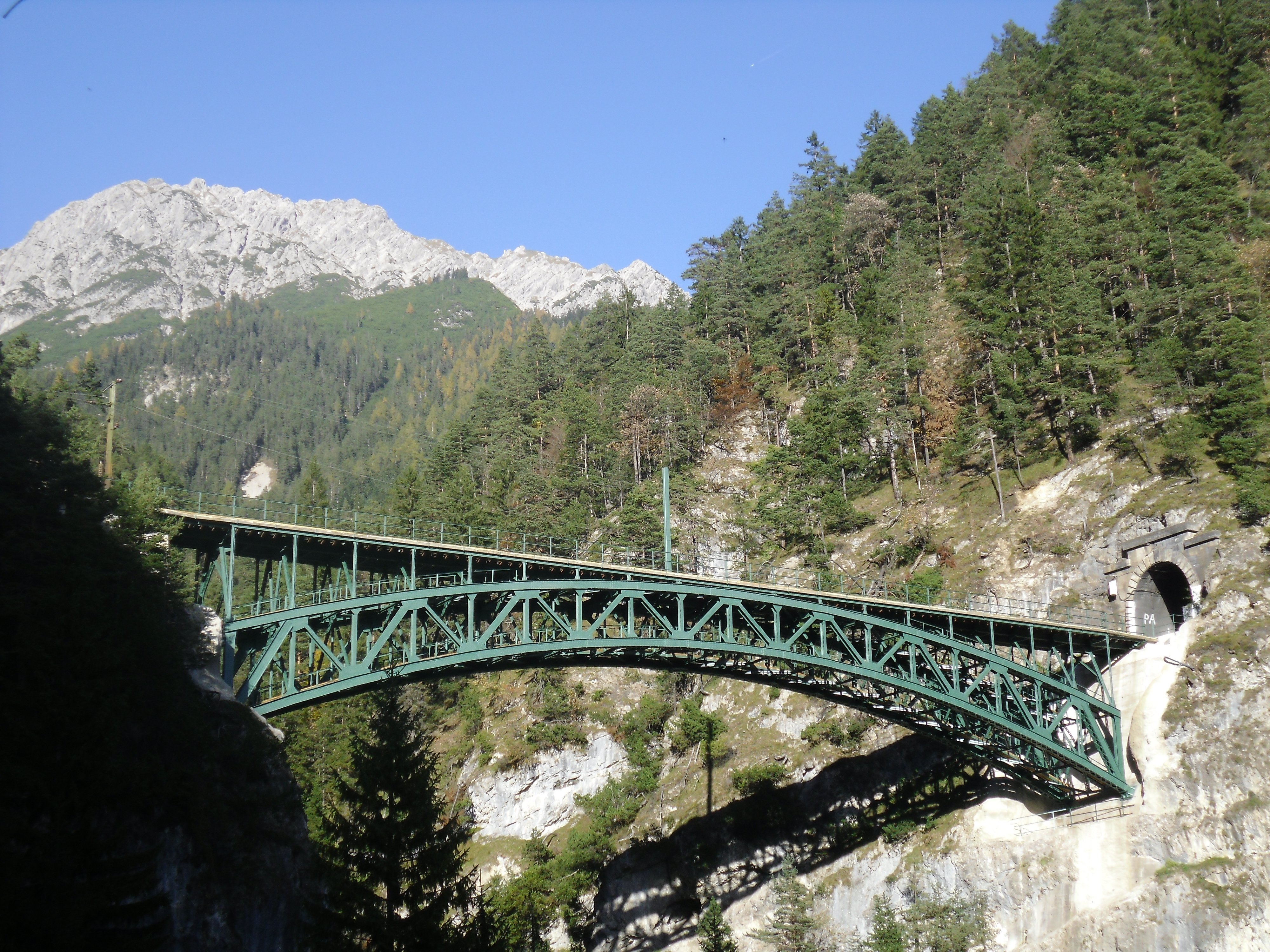 Schlossbachgraben-Brücke